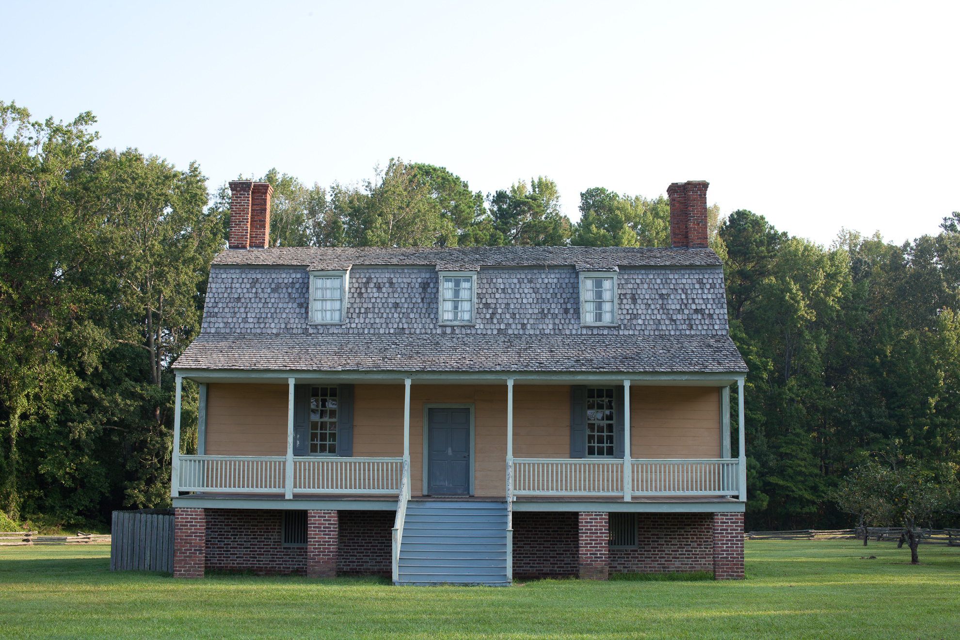 King-Bazemore House, Northwest of Windsor off NC 308 Windsor